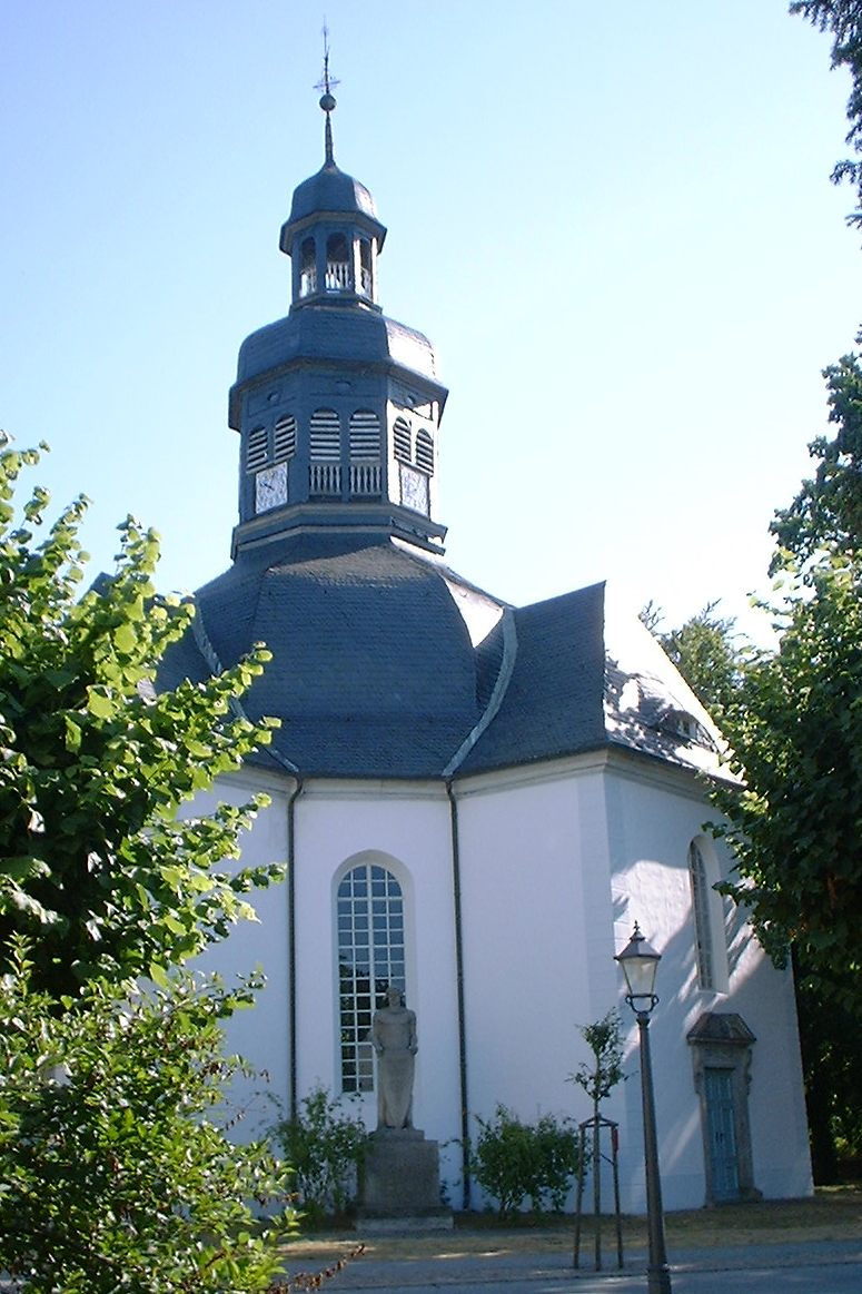 Church in Neustadt in Brandenburg, Germany